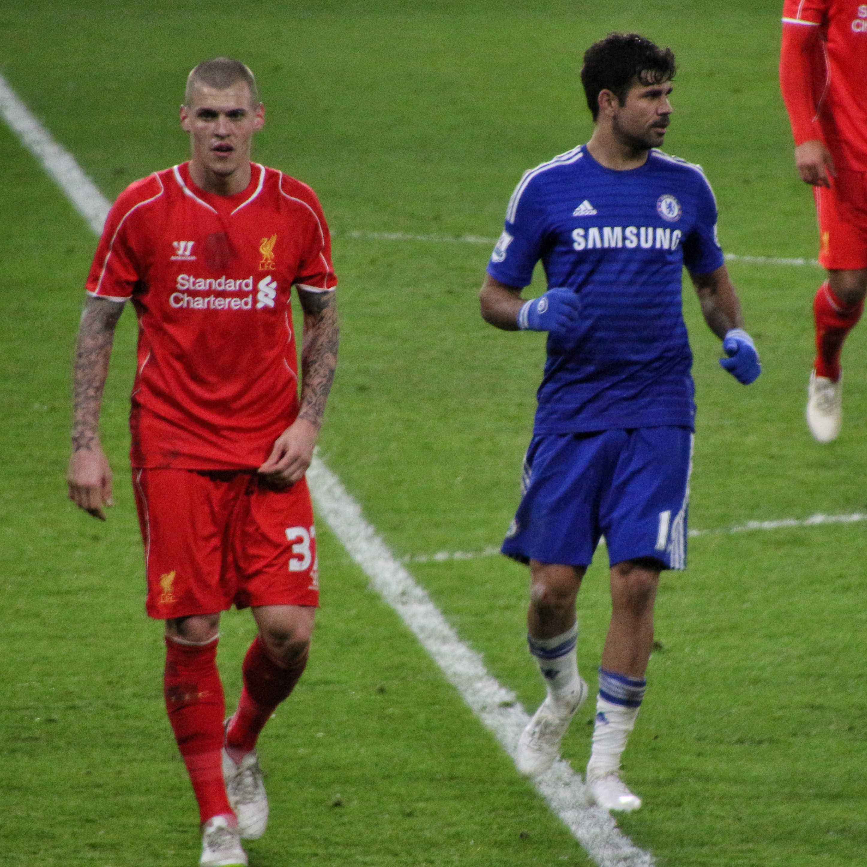 Chelsea 1 lLiverpool 0 (2-1 agg) Capital One Cup semi final 2nd leg On our way to Wembley!